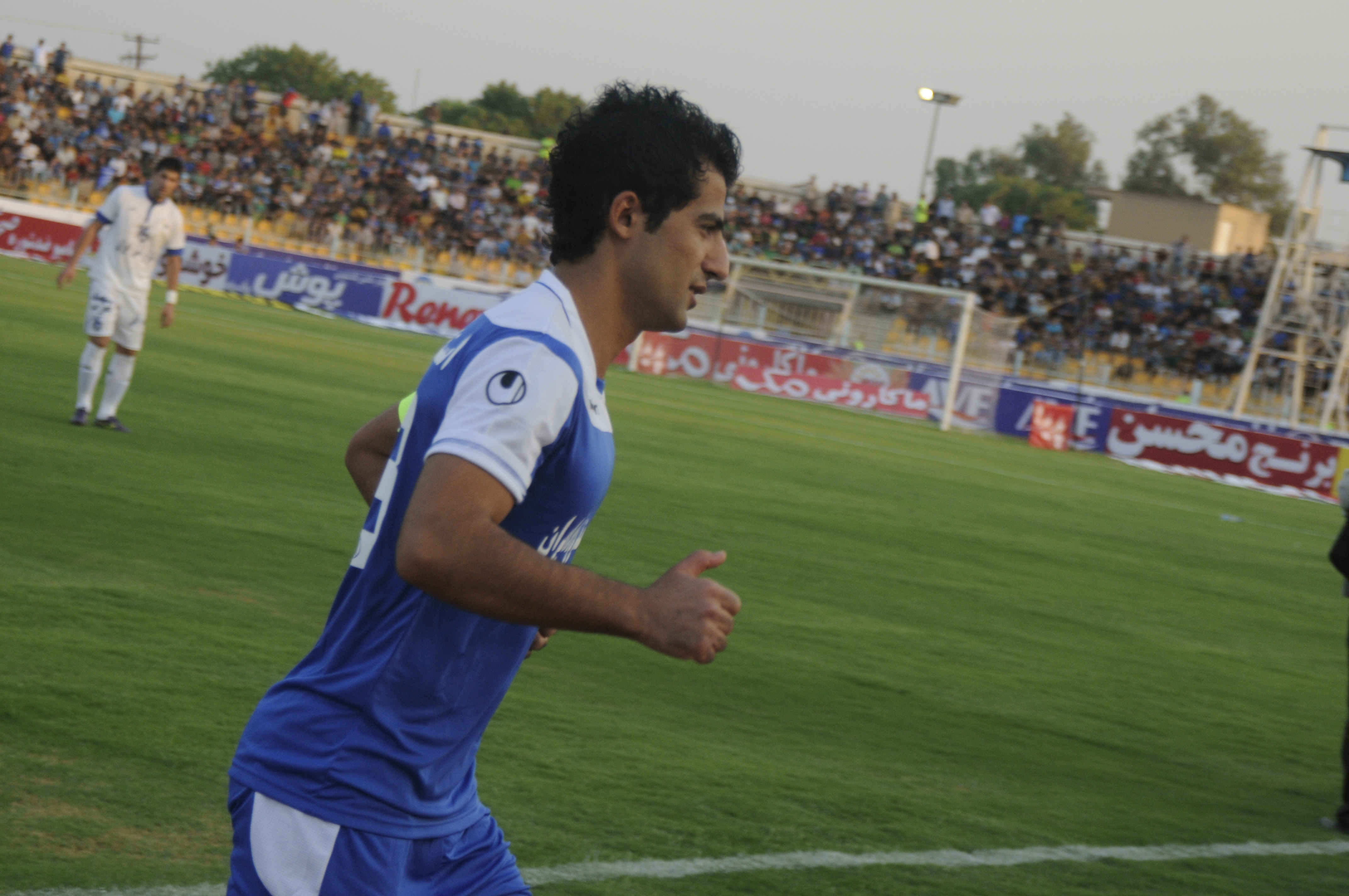 Iman Moba'li